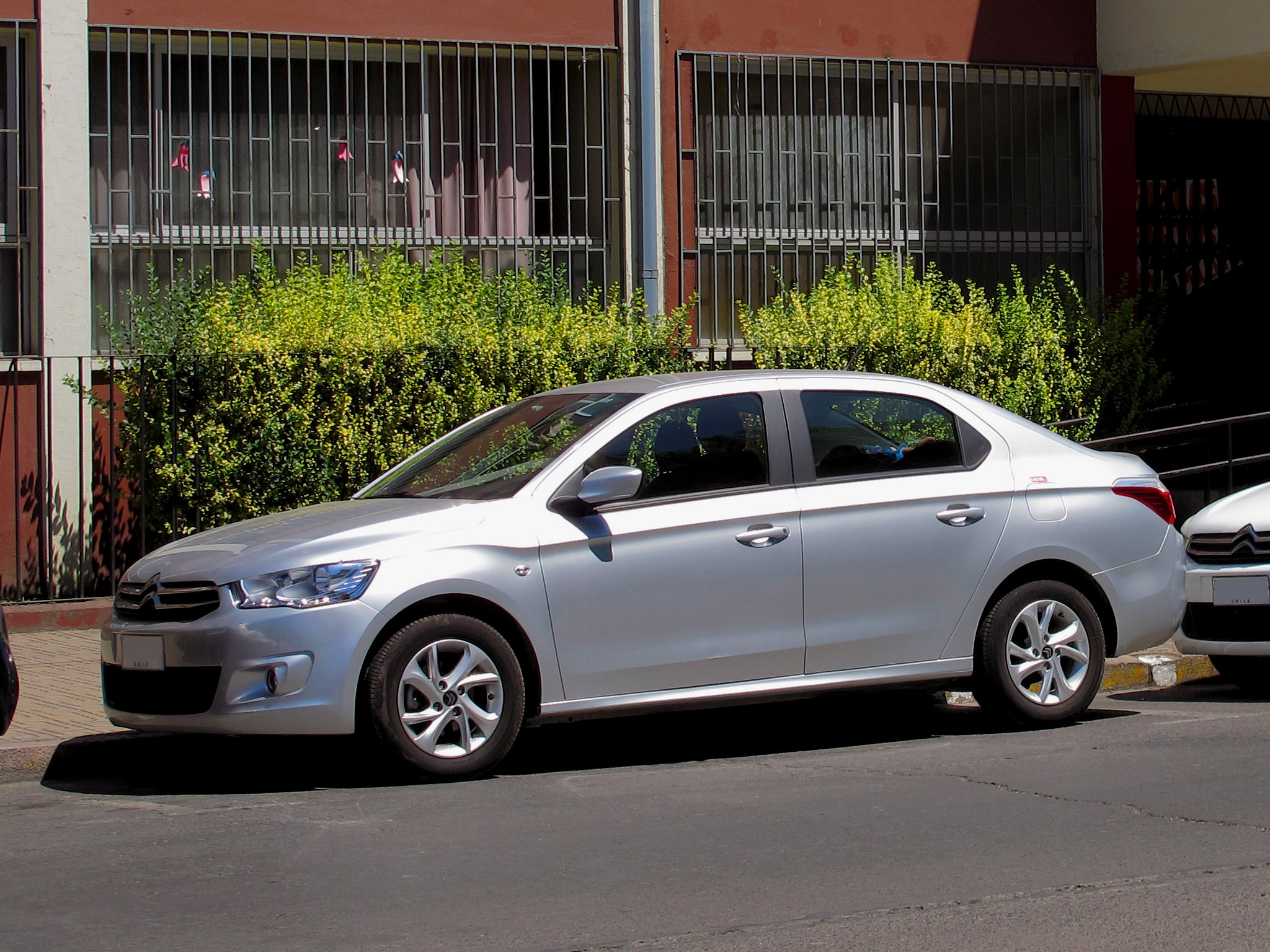 Citroen C-Elysee 1.6 HDi Seduction 2014